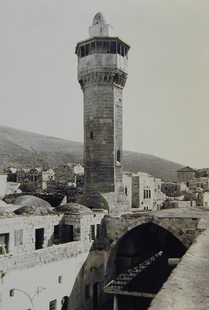 An old photo of Nablus' Great Mosque minaret